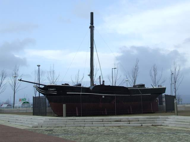 The Comet replica. Compare with this earlier shot taken during construction of the new plinth 351577.